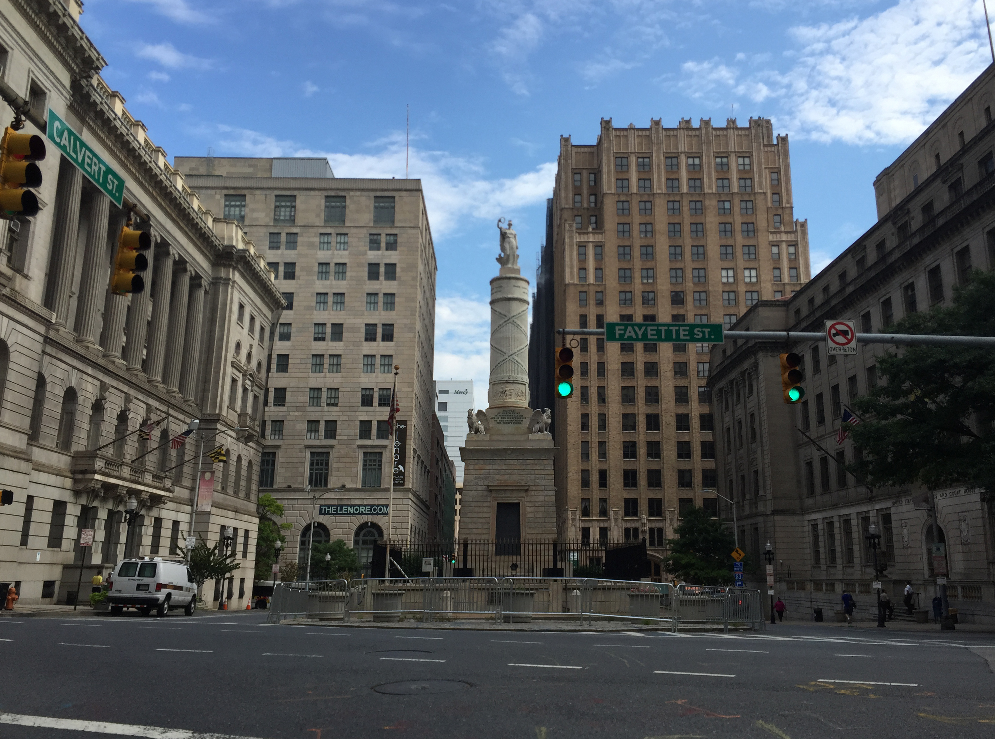 View north along Maryland State Route 2 (Calvert Street) at Fayette Street and the Baltimore Battle Monument in Baltimore City, Maryland